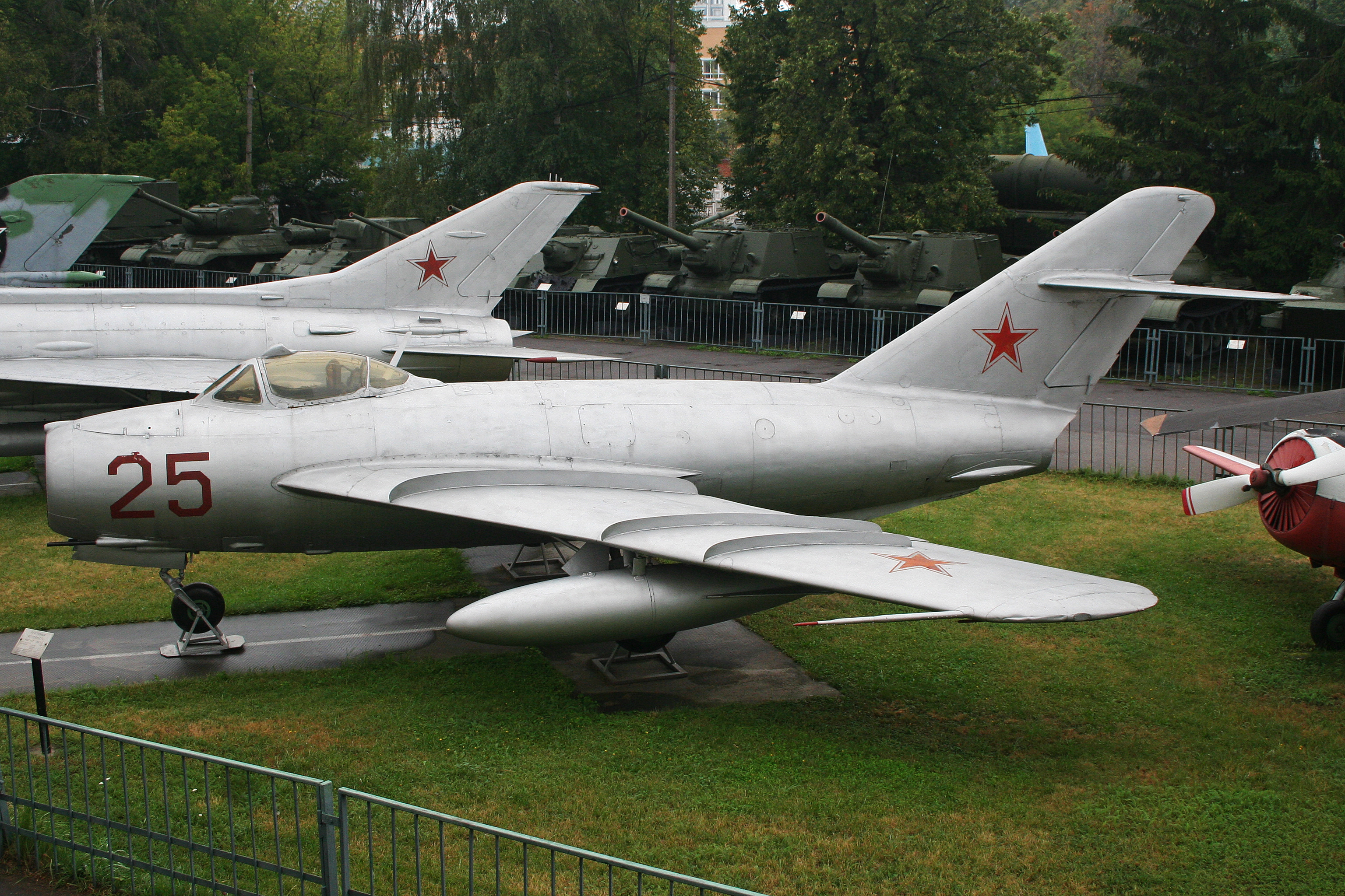 msn 0515347. On display at the Central Armed Forces Museum, Moscow, Russia. 15-8-2012